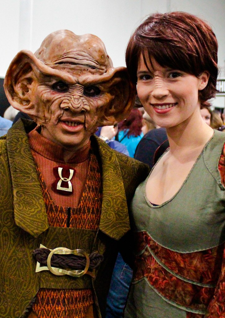 Destination Star Trek London: Trekkies – Ferengi man and Bajoran woman